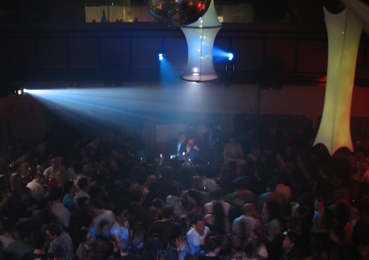 The interior of The Boom Boom Room, with Benny Benassi on stage